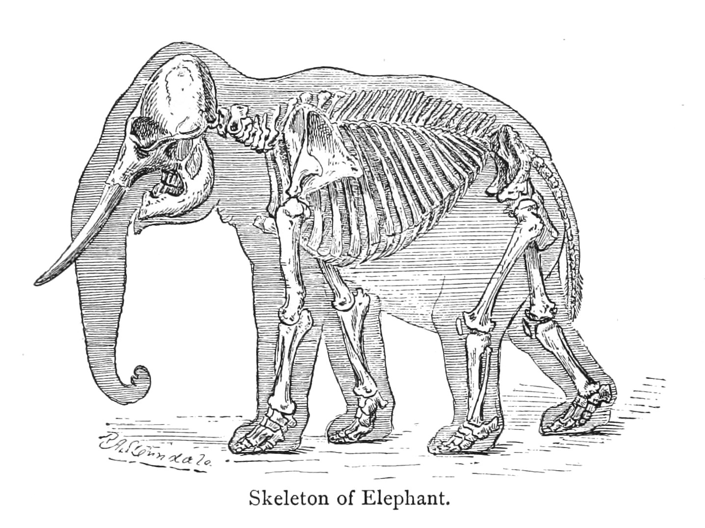 Skeleton of Indian Elephant